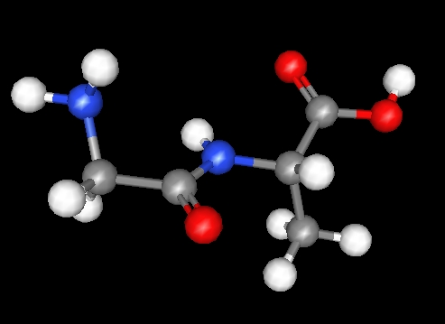 dipeptid - Ball and stick molecular graphics created by program Ghemical